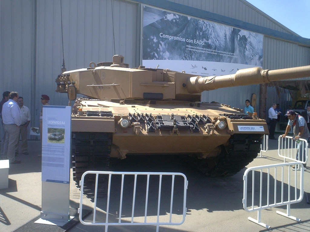 FIDAE 2008: Leopard 2A4 of the Chilean army.